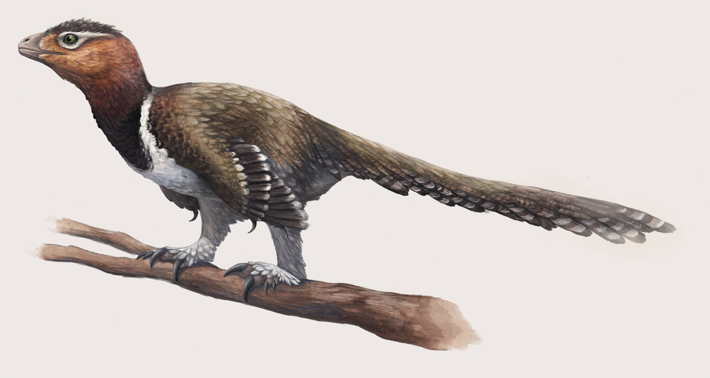 2015 restoration of Balaur bondoc, after Cau et al.'s new paper on the avialan affinities of Balaur.